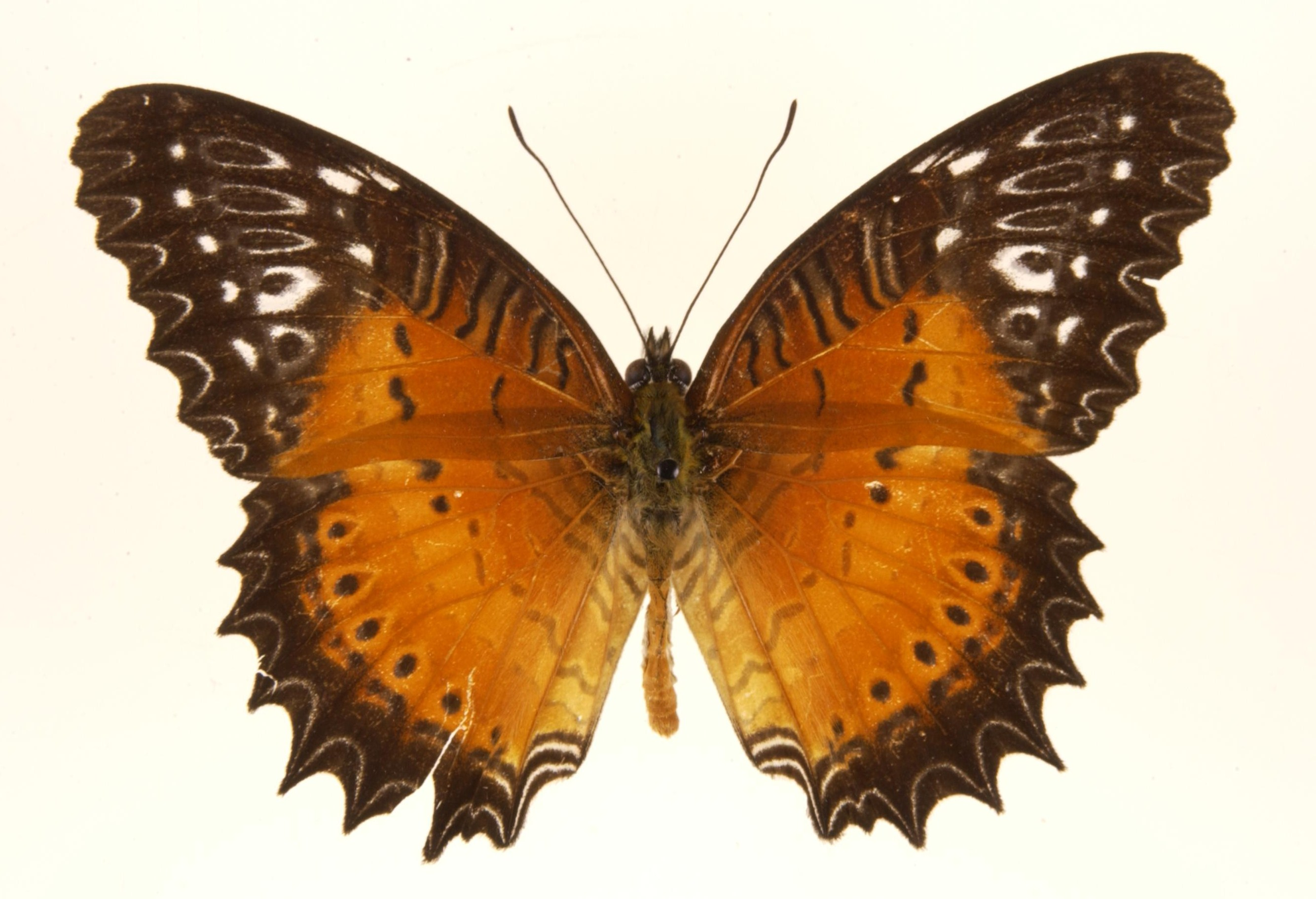 Cethosia biblis Malaya